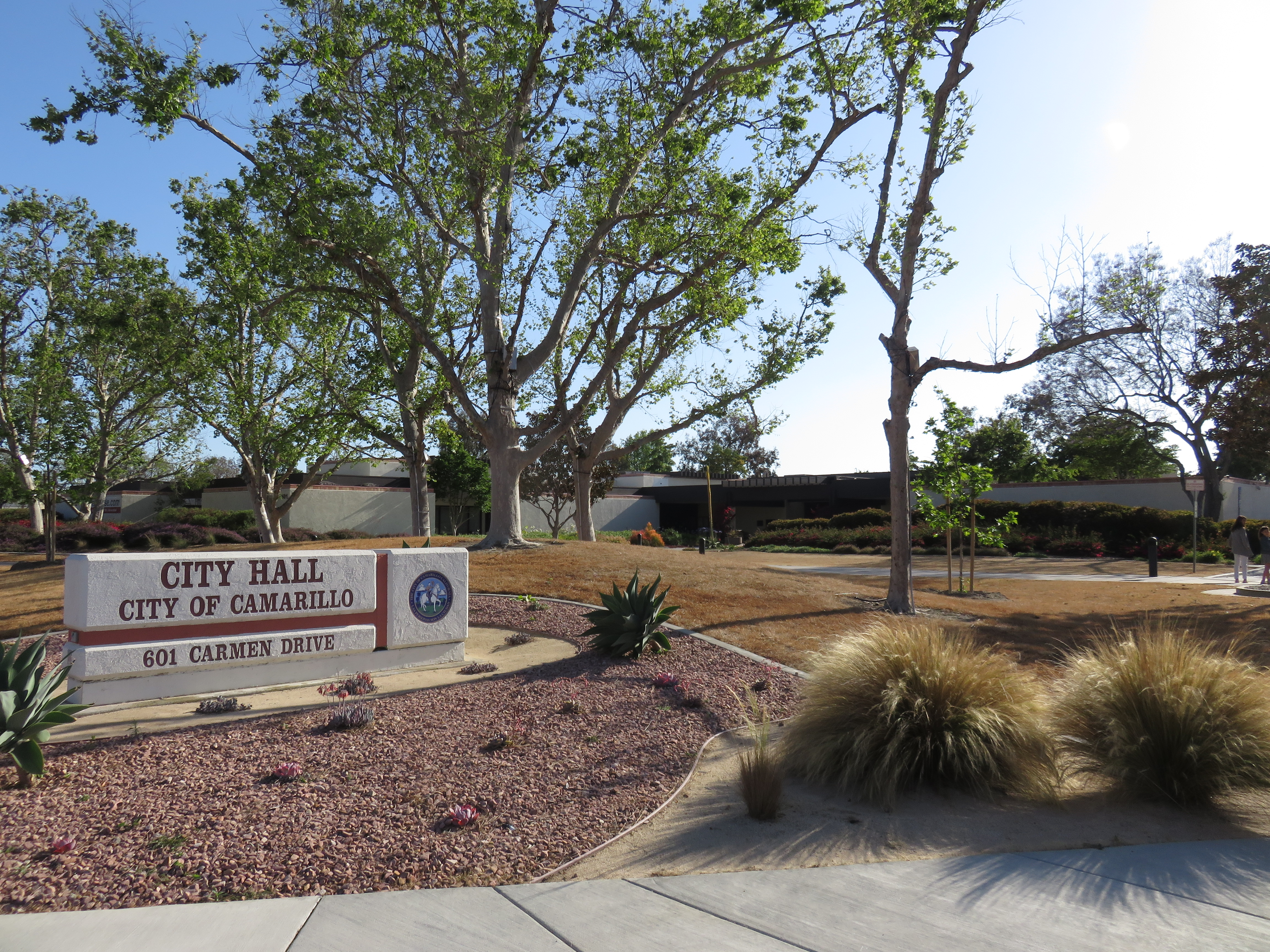 Camarillo, California City Hall in 2018